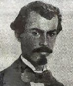 Francisco Ramirez Medina, Puerto Rican rebel at the Grito de Lares.